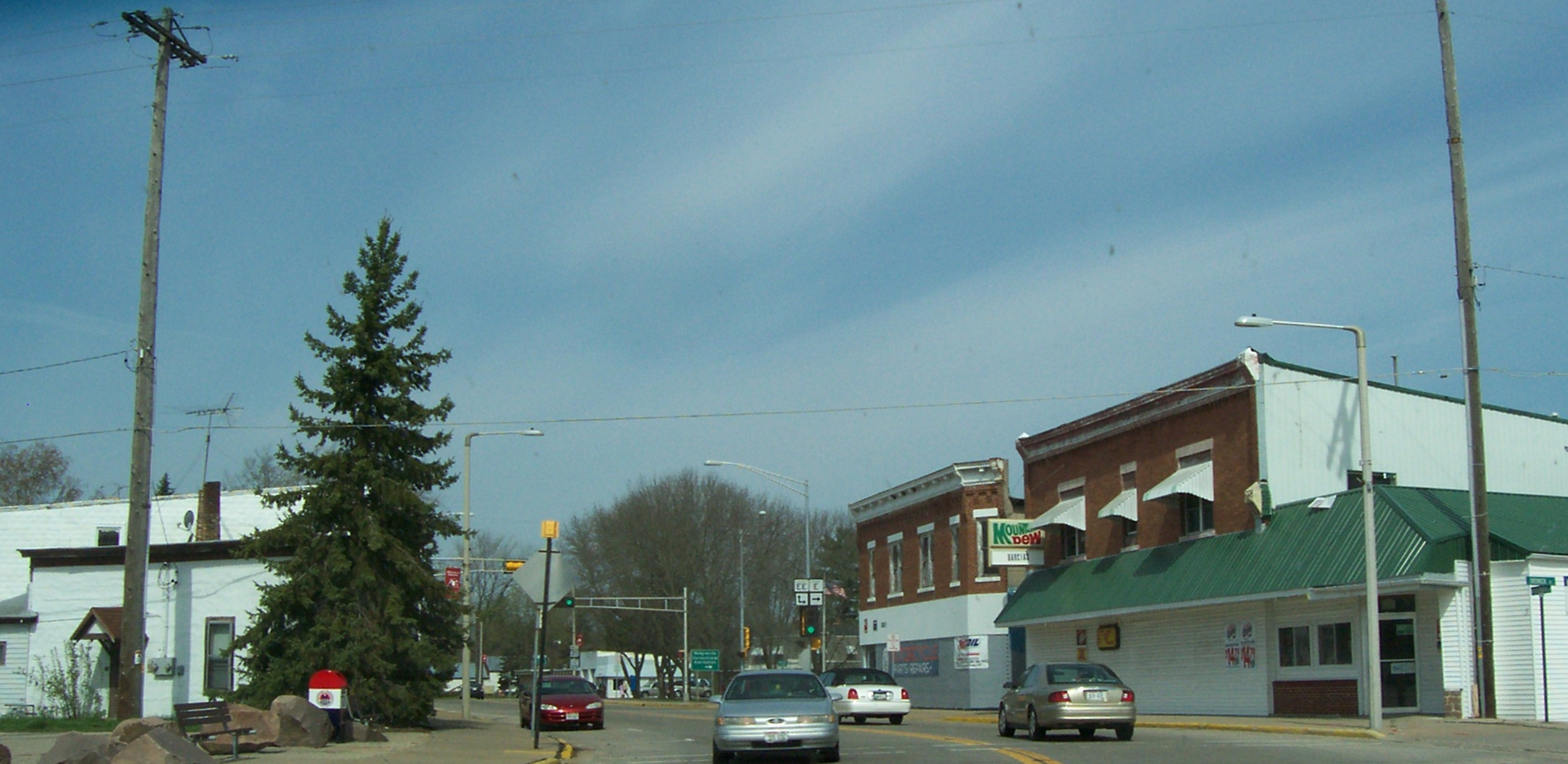 Looking west at downtown Redgranite, Wisconsin, USA on Wisconsin Highways 21.